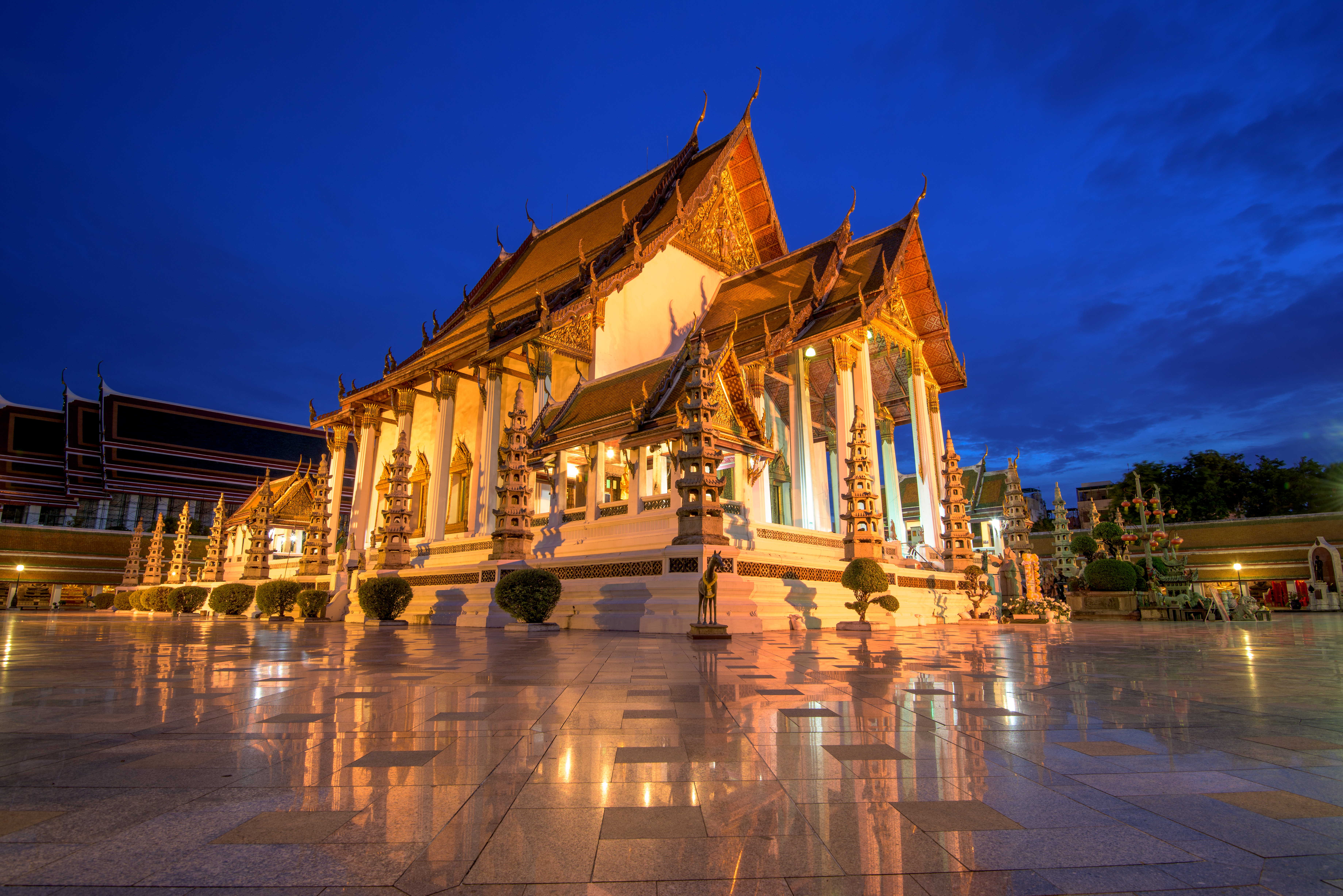 The main vihara of Wat Suthat Thep Wararam, Phra Nakhon District, Bangkok